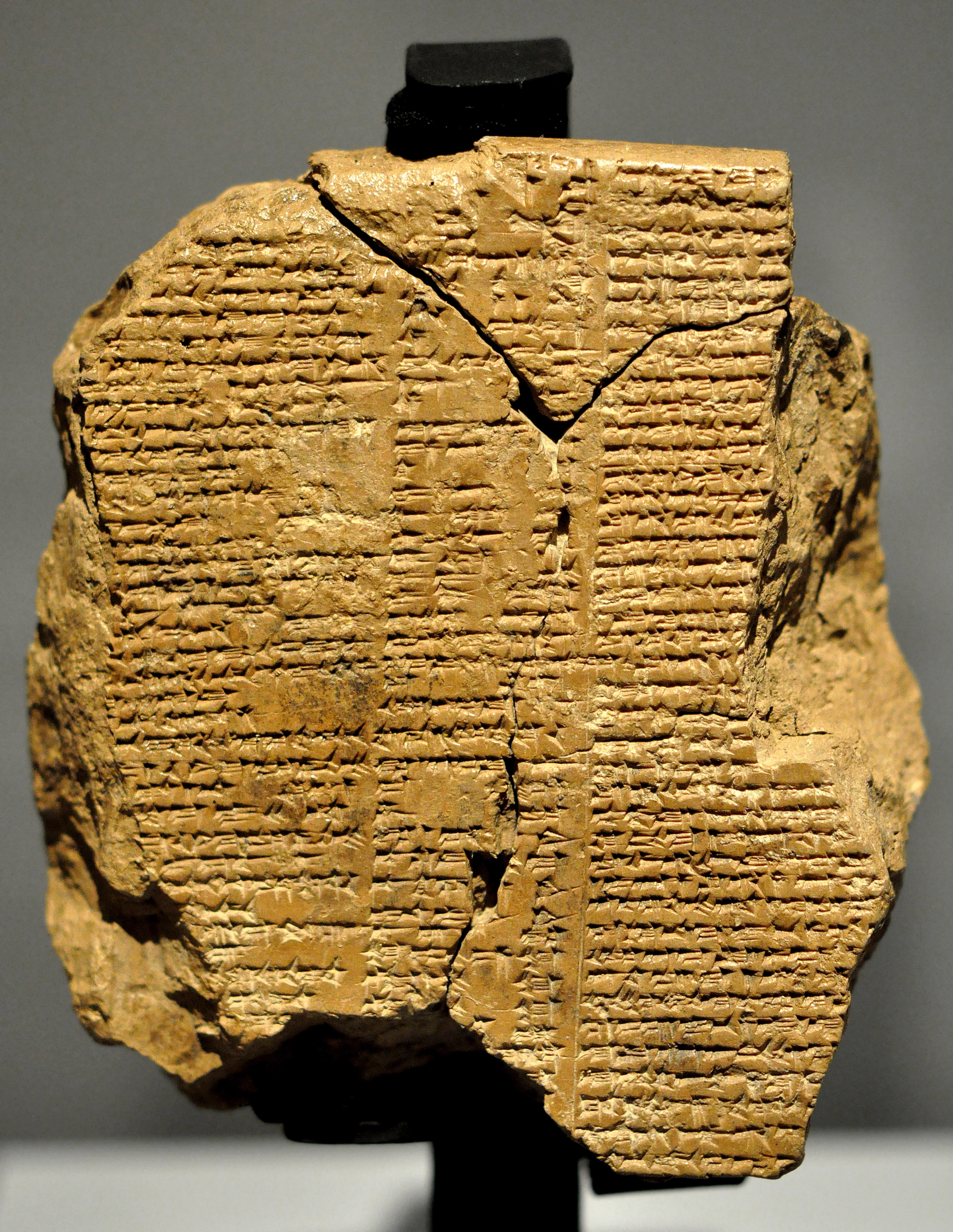 This is a newly discovered partially broken tablet V of the Epic of Gilgamesh. The tablet dates back to the old Babylonian period, 2003-1595 BCE. From Mesopotamia, Iraq. The Sulaymaniyah Museum, Iraq.